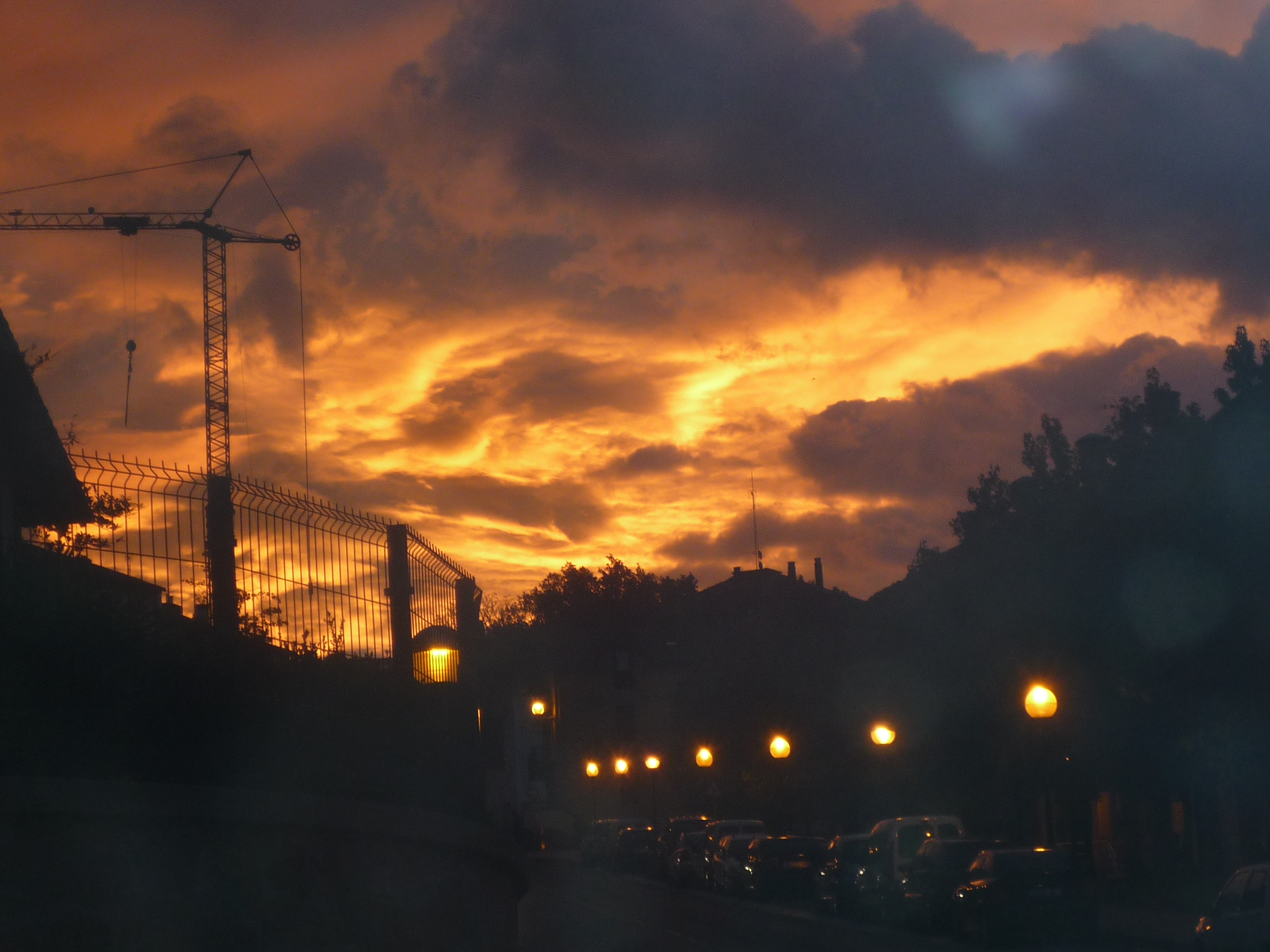 Sunrise in Oiartzun.